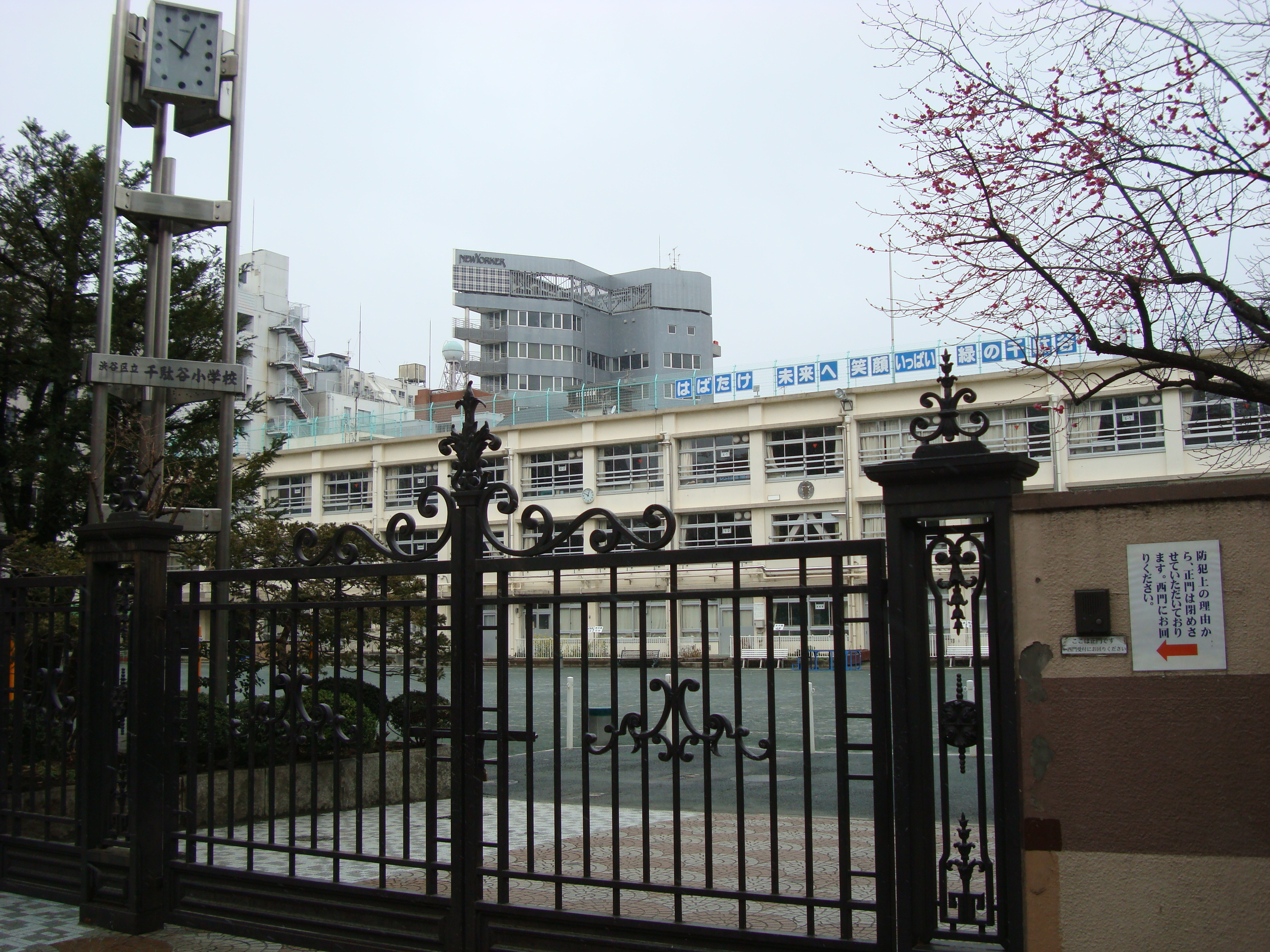 The Sendagaya Shyogakko (Elemenatary school), Shibuya-ku, Tokyo